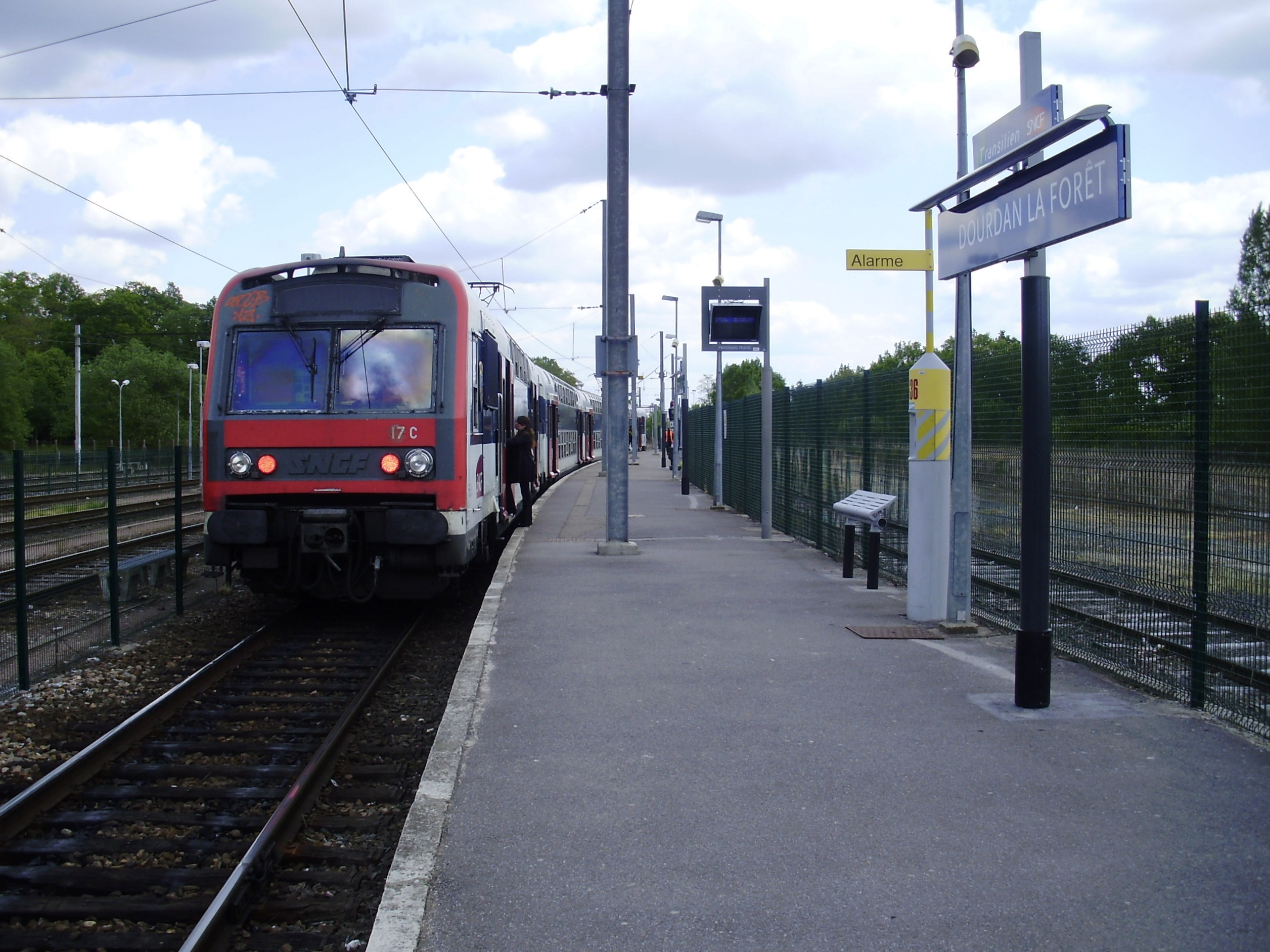 Dourdan - La Forêt station, in Dourdan, Essonne, France (train waiting the departure time)